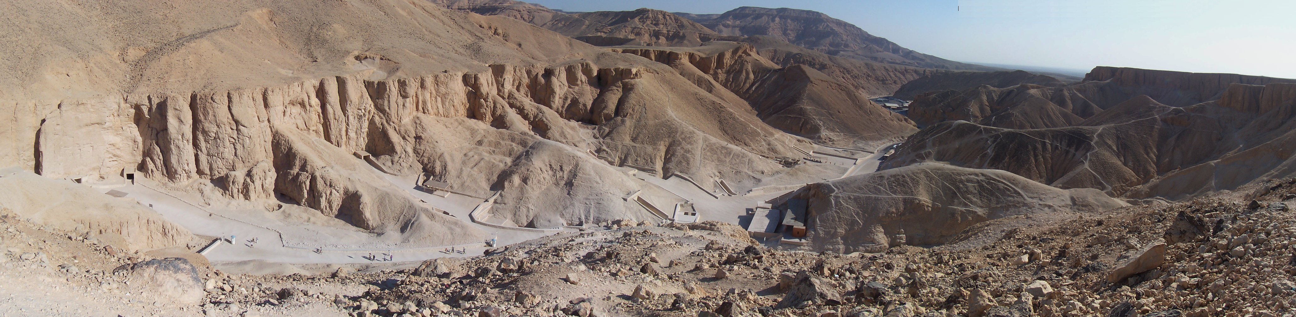 Panorama of the Valley of the Kings. Taken from the hill overlooking KV11, looking norht.